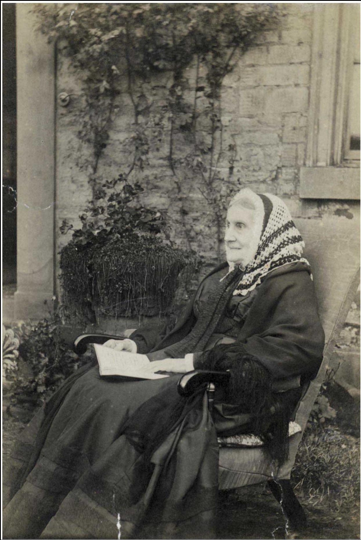 Mary Anne Rawson (1801–1887) abolitionist. She was a campaingner with the Tract Society, the British and Foreign Bible Society, Italian Nationalism, Child labour, but above all anti-slavery